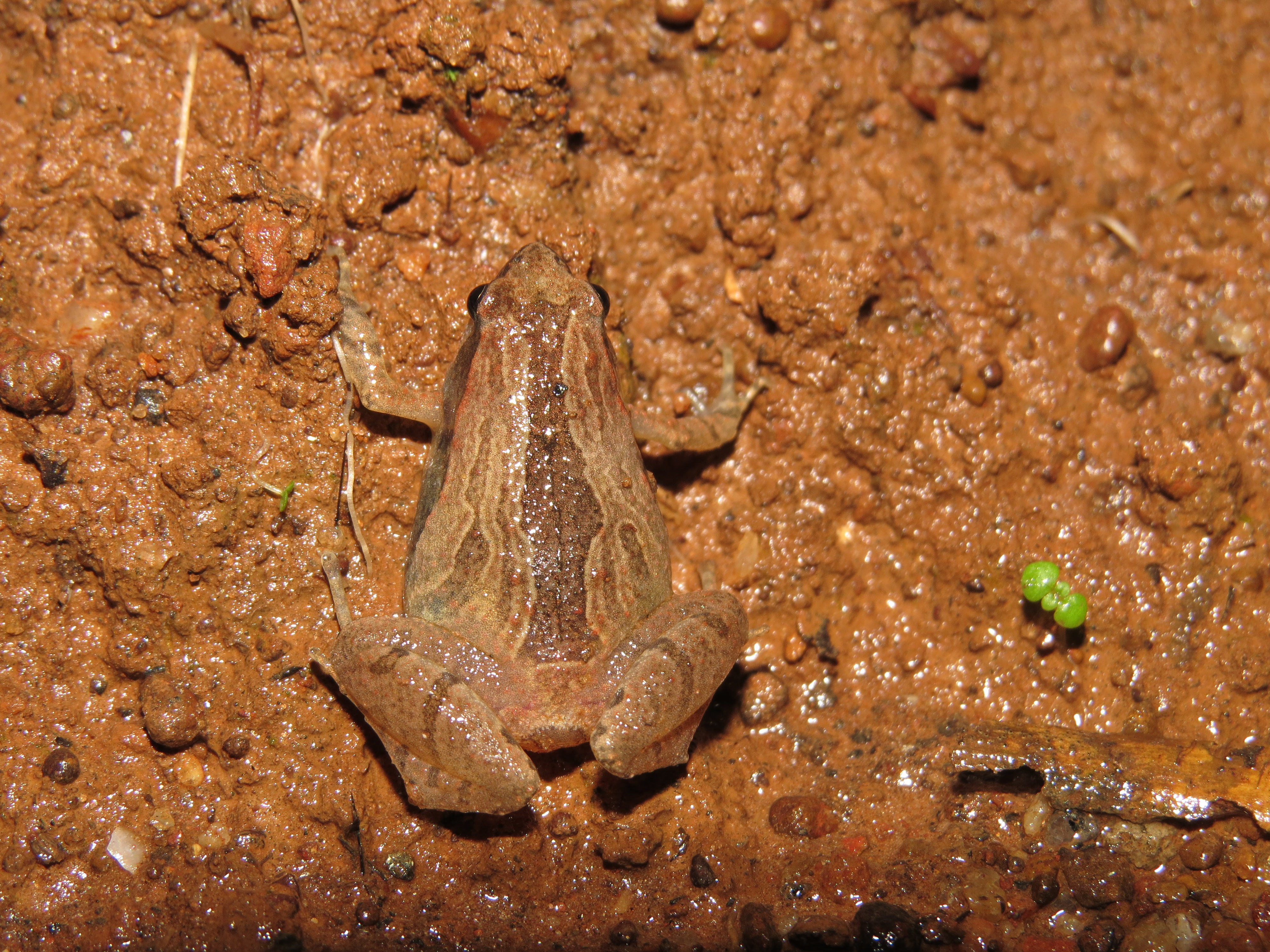 A Microhyla sholigari - clicked from the top showing typical-microhylid shape and ornate dorsal pattern.